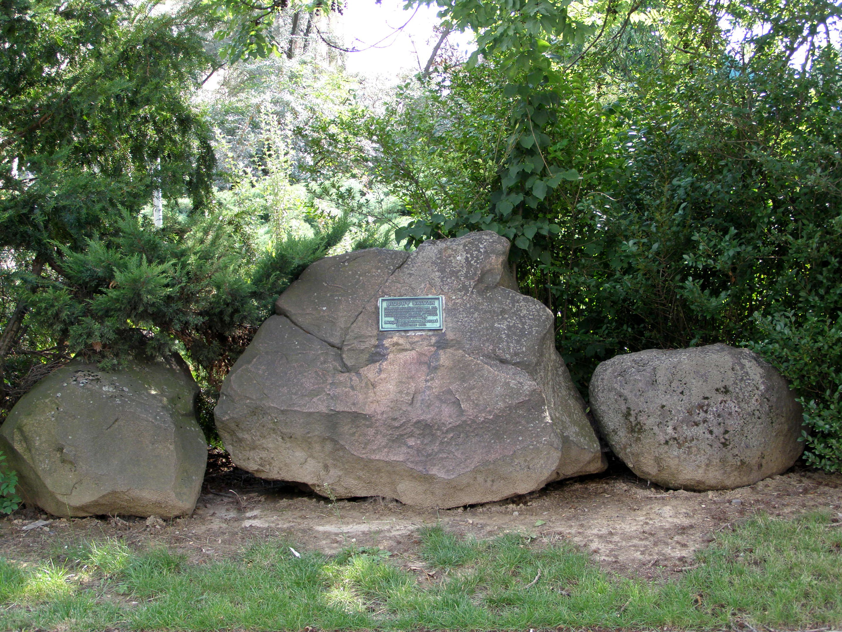 Frýdek-Místek, Glacial erratic